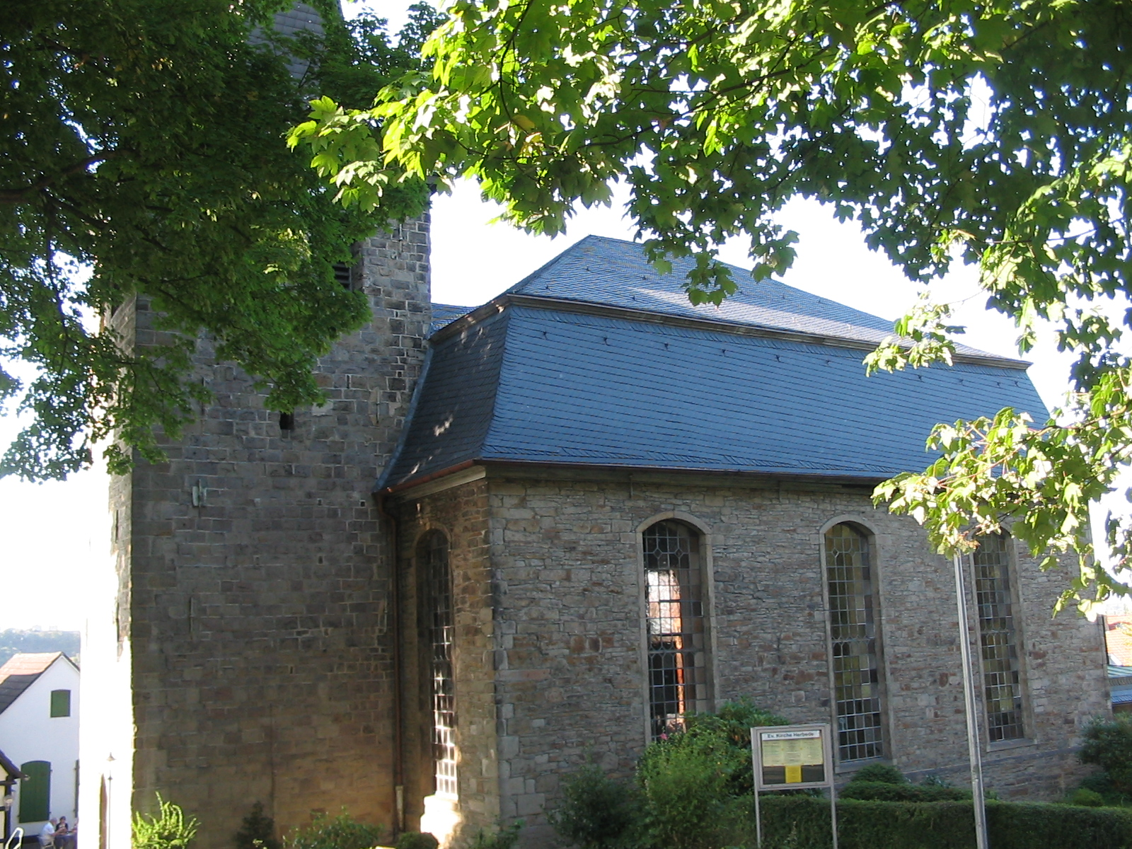 Protestant church in Witten-Herbede, Germany